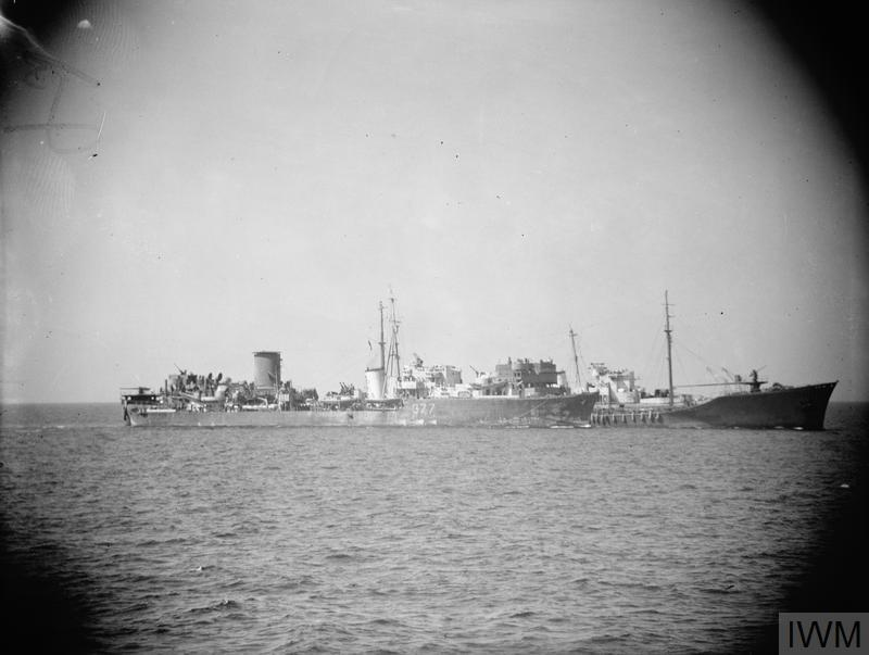 ANOTHER MALTA CONVOY GETS THROUGH. 21 AUGUST 1942. Destroyers standing by the damaged tanker OHIO, which reached Malta safely after being torpedoed and attacked from the air.